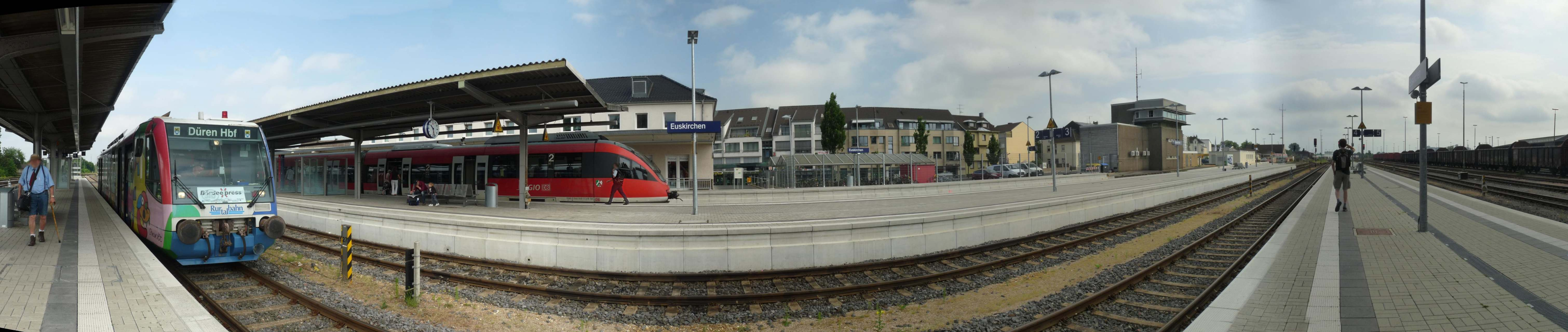 Euskirchen station, platform 4/5